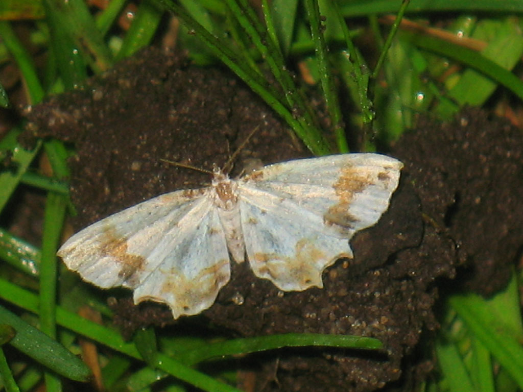 Eversmannia exornata (No commo name)